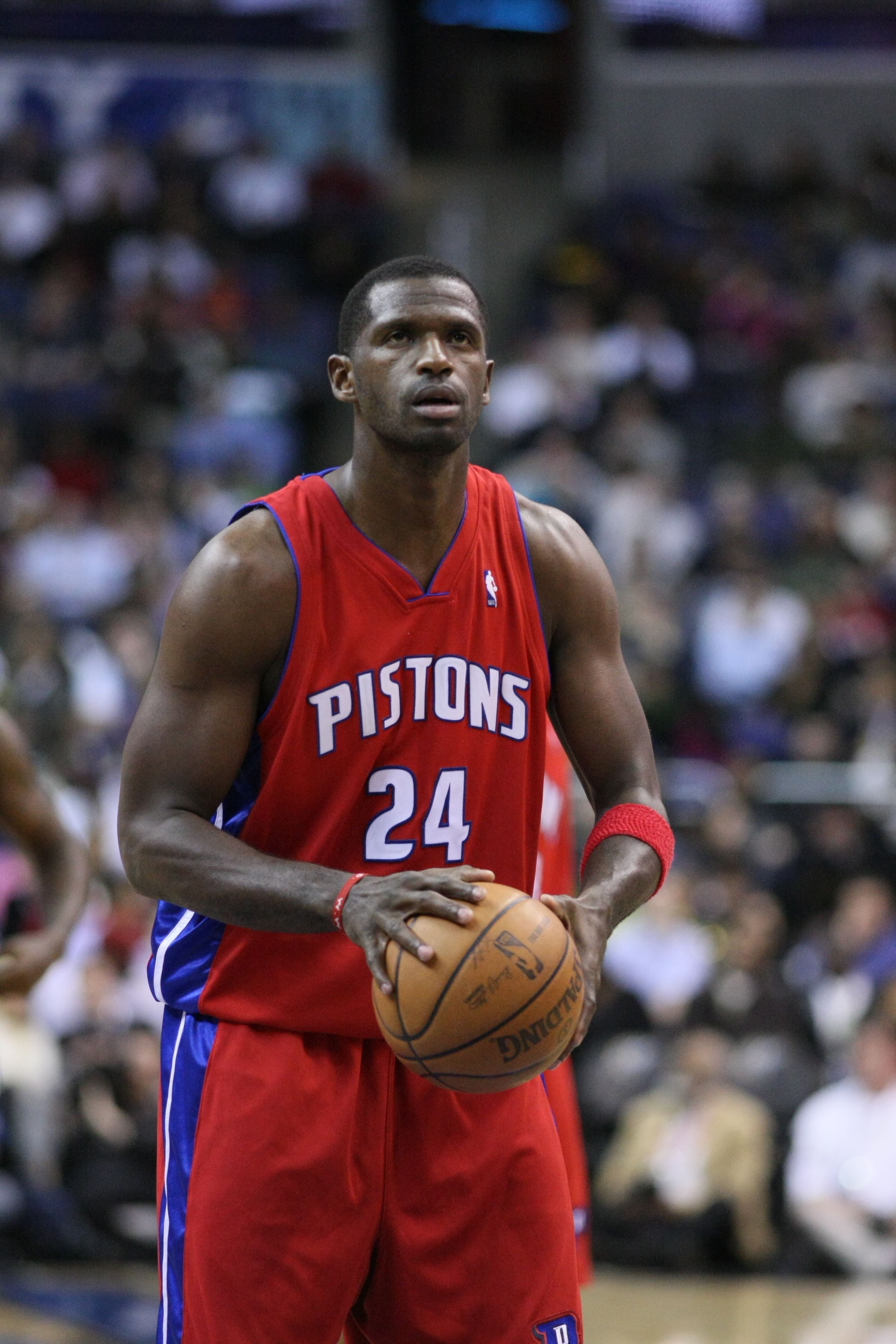 Antonio McDyess, of the National Basketball Association's Detroit Pistons, during a 2008 basketball game against the Washington Wizards.